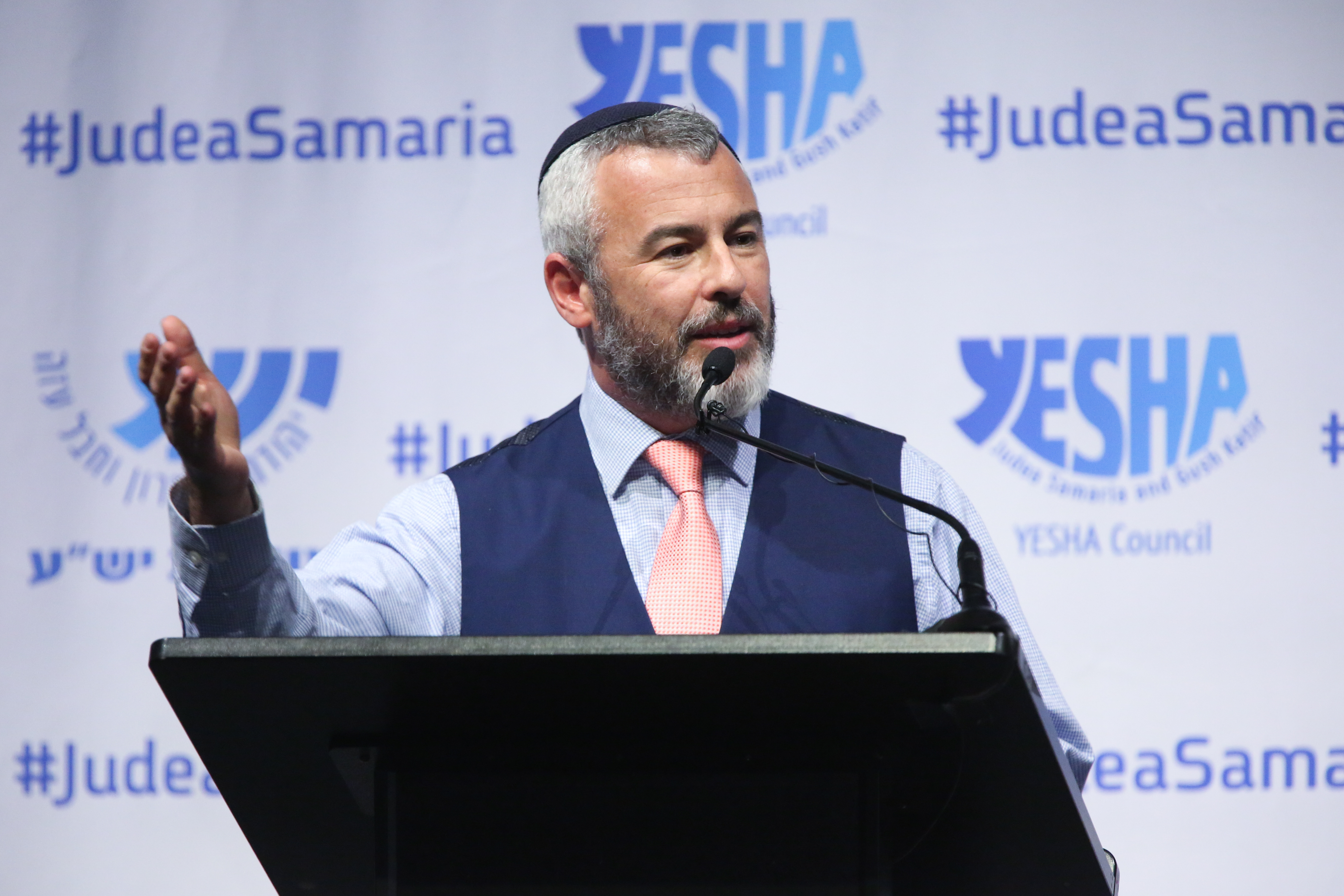 Yishai Fleisher, international spokesperson for the Jewish community of Hebron speaking at the 4th Annual Judea and Samaria AIPAC Reception in Washington DC, March 24, 2019.